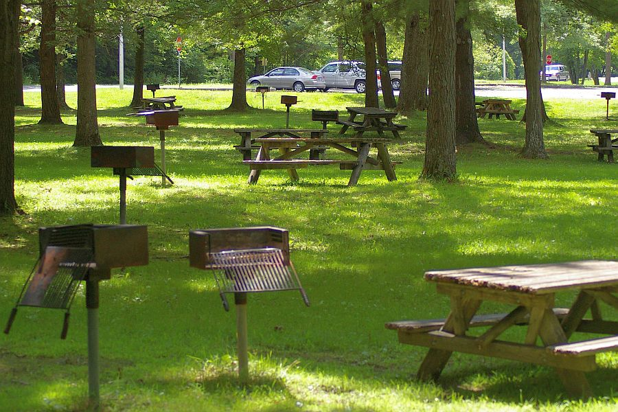 Public Outdoor barbecues, in state park